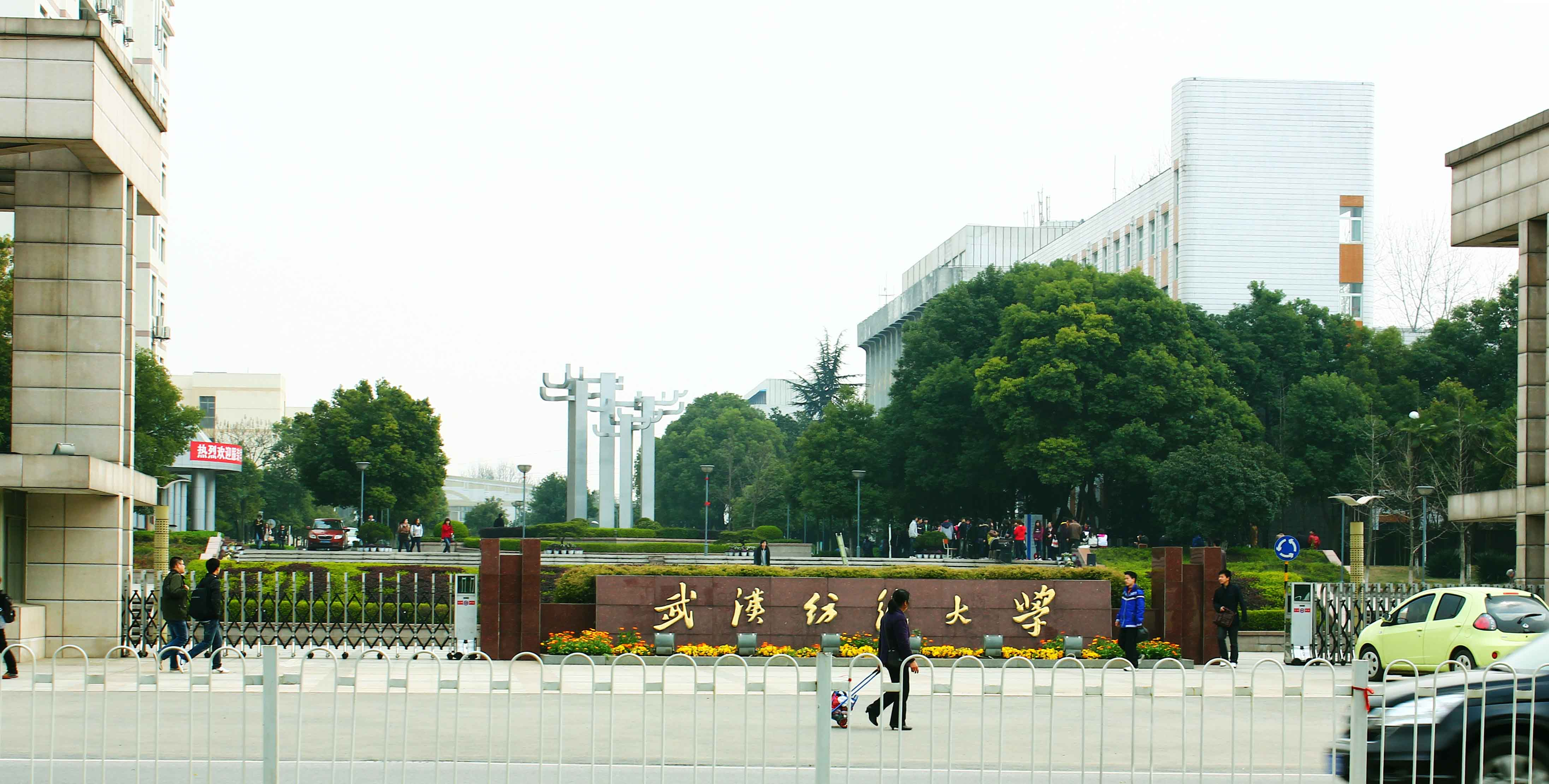 The West Gate of Wuhan Textile University（South Lake Campus）